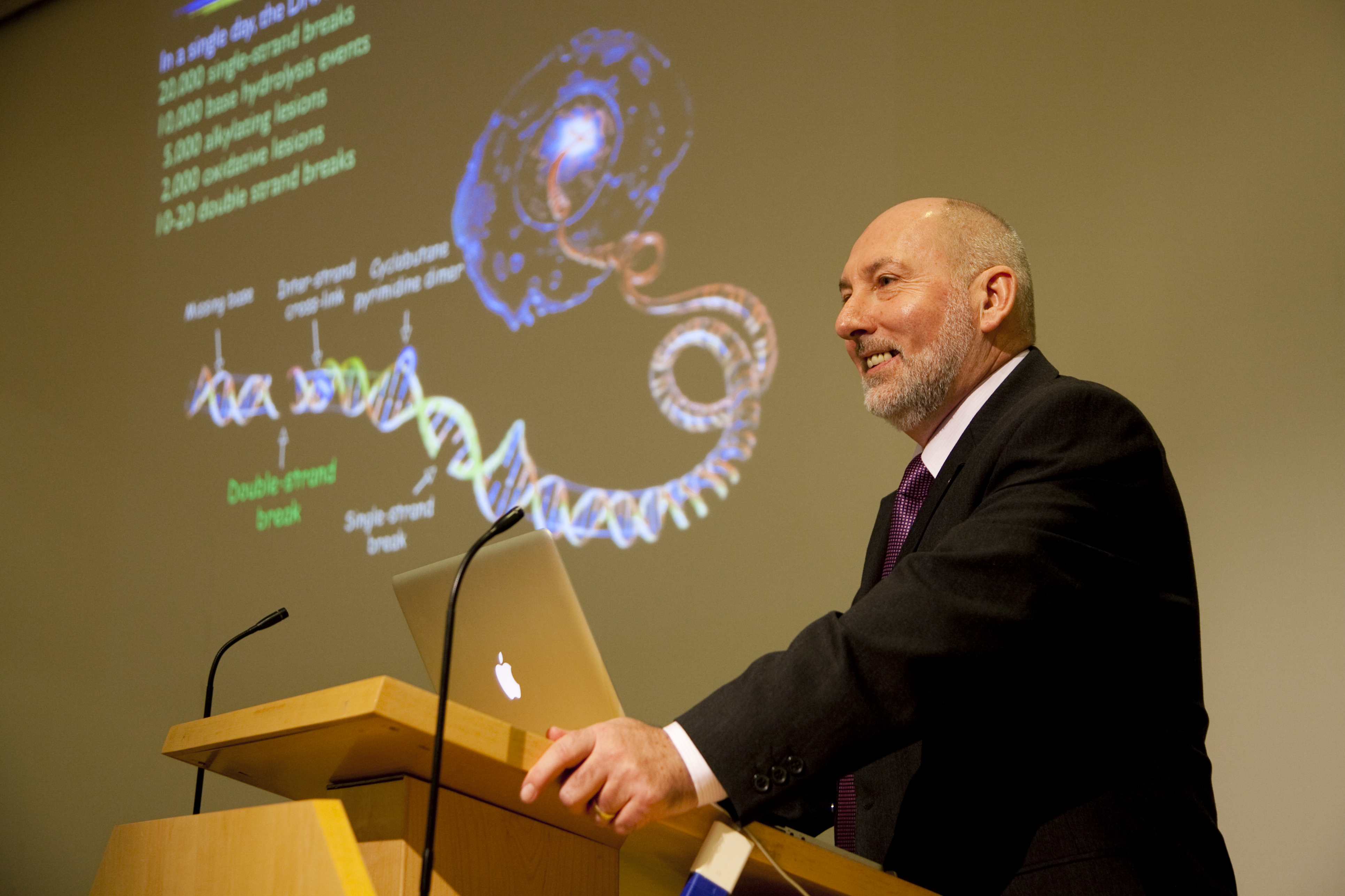 Stephen West presenting the GlaxoSmithKline Lecture at the Royal Society in London